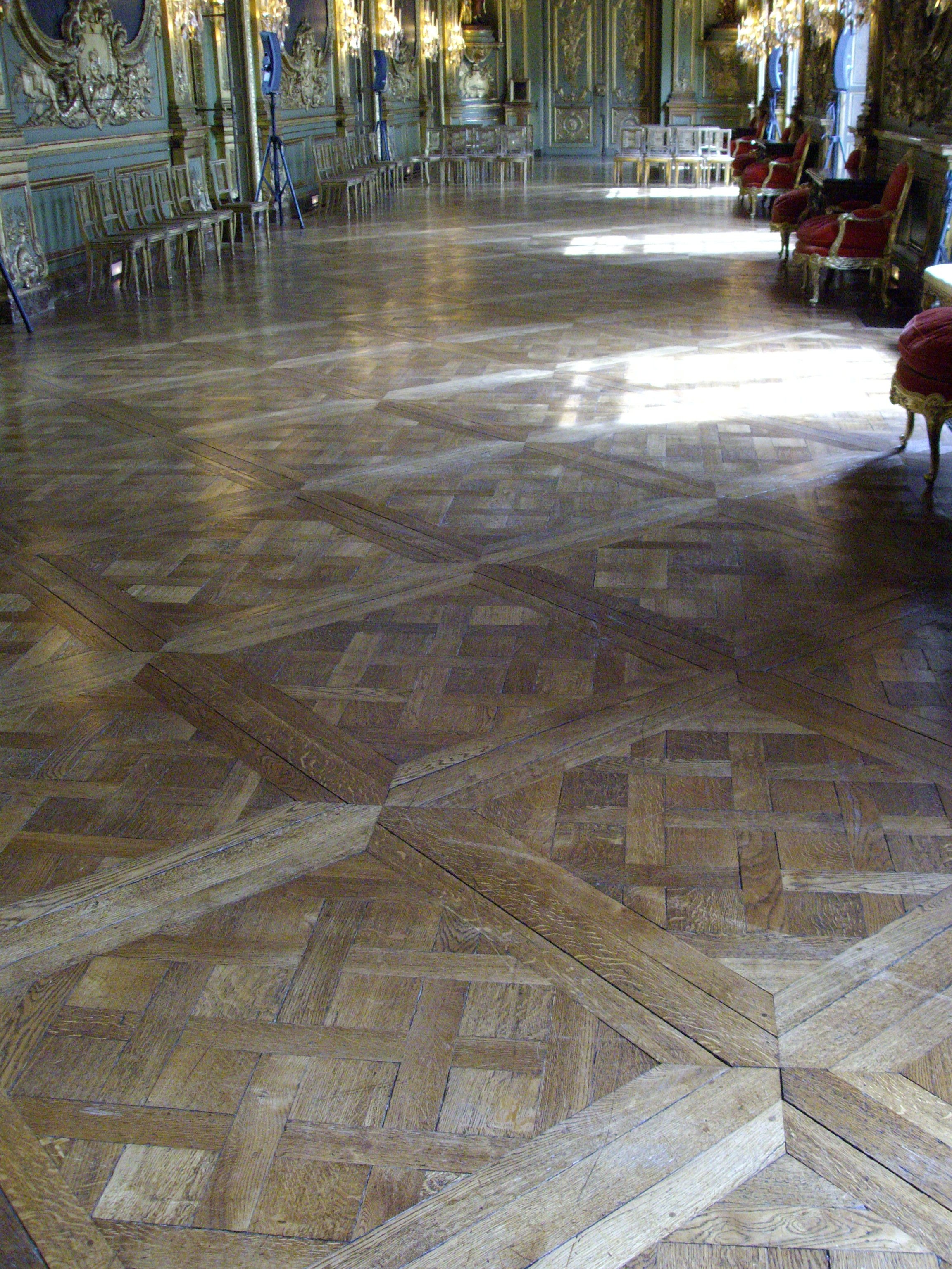 The galerie dorée of the Hôtel de Toulouse, headquarter of the Banque de France in Paris